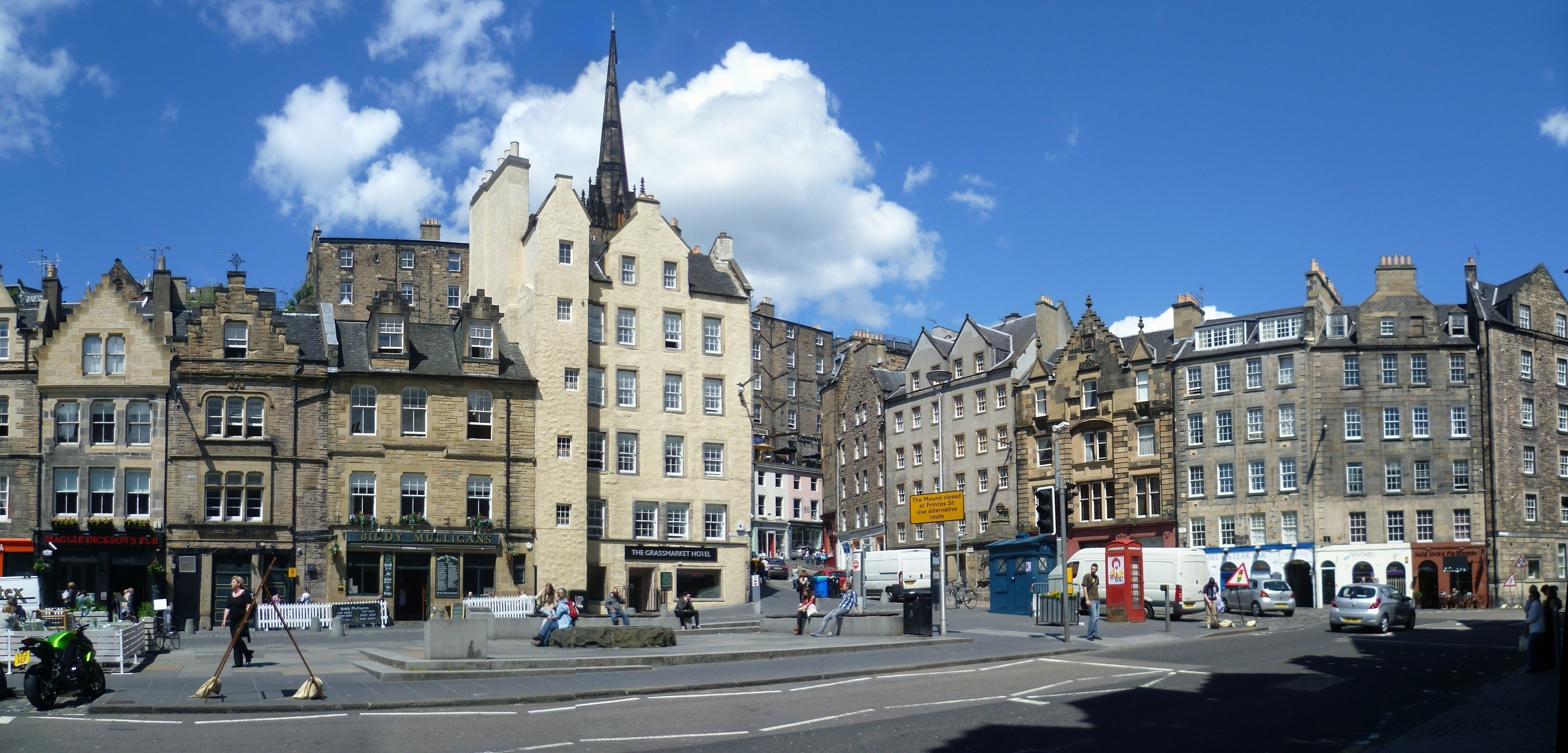 The north-east corner of the Grassmarket, Edinburgh (composite)